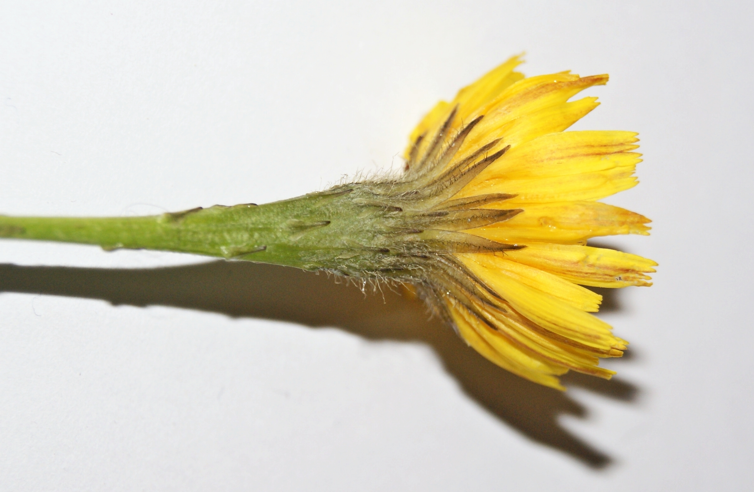 Scorzoneroides autumnalis (Syn.: Leontodon autumnalis), Germany.